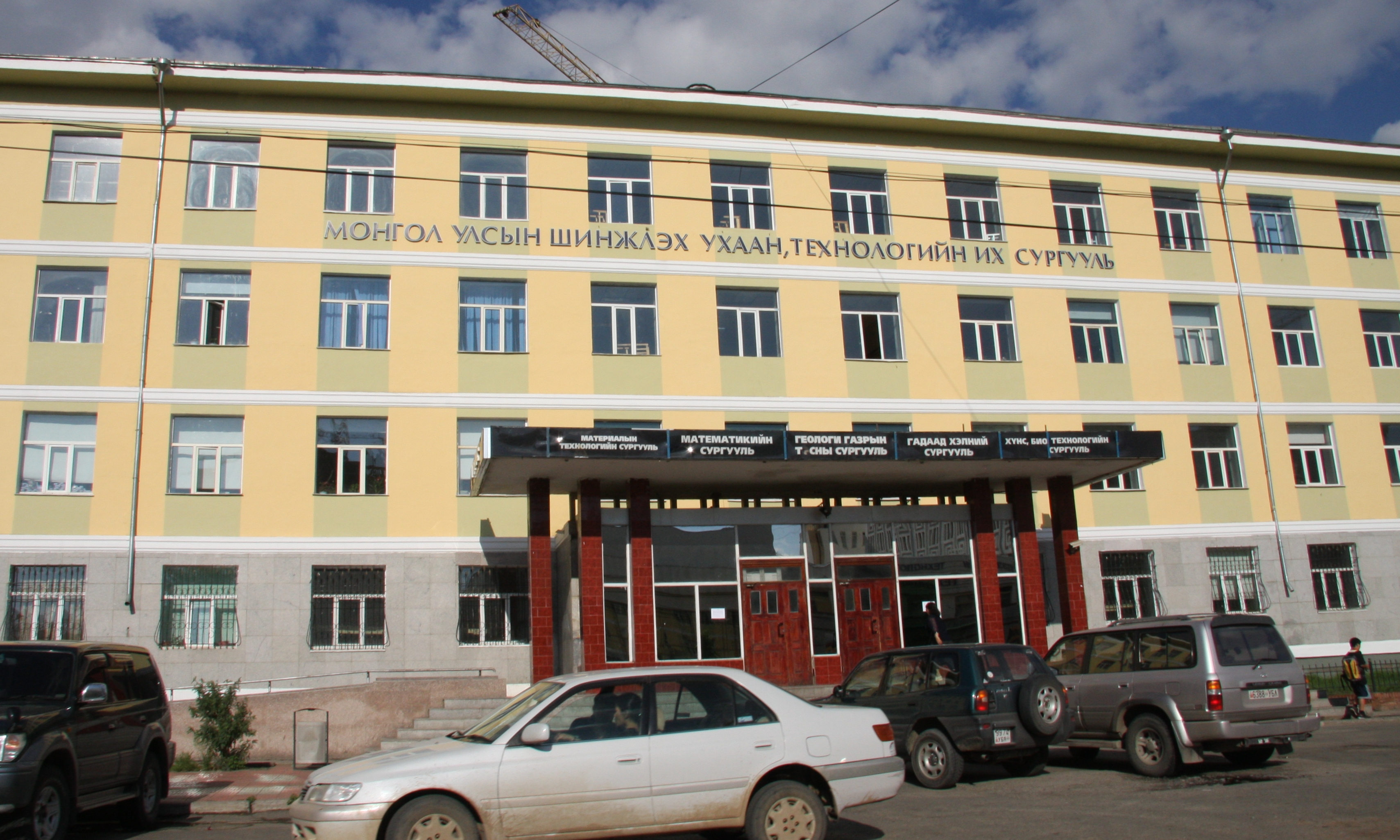 Mongolian Technology and Science University Монгол: Шинжлэх Ухаан Технологийн Их Сургууль